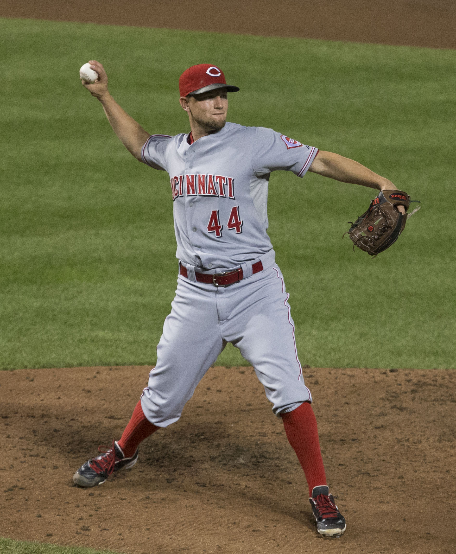 Reds at Orioles 9/4/14